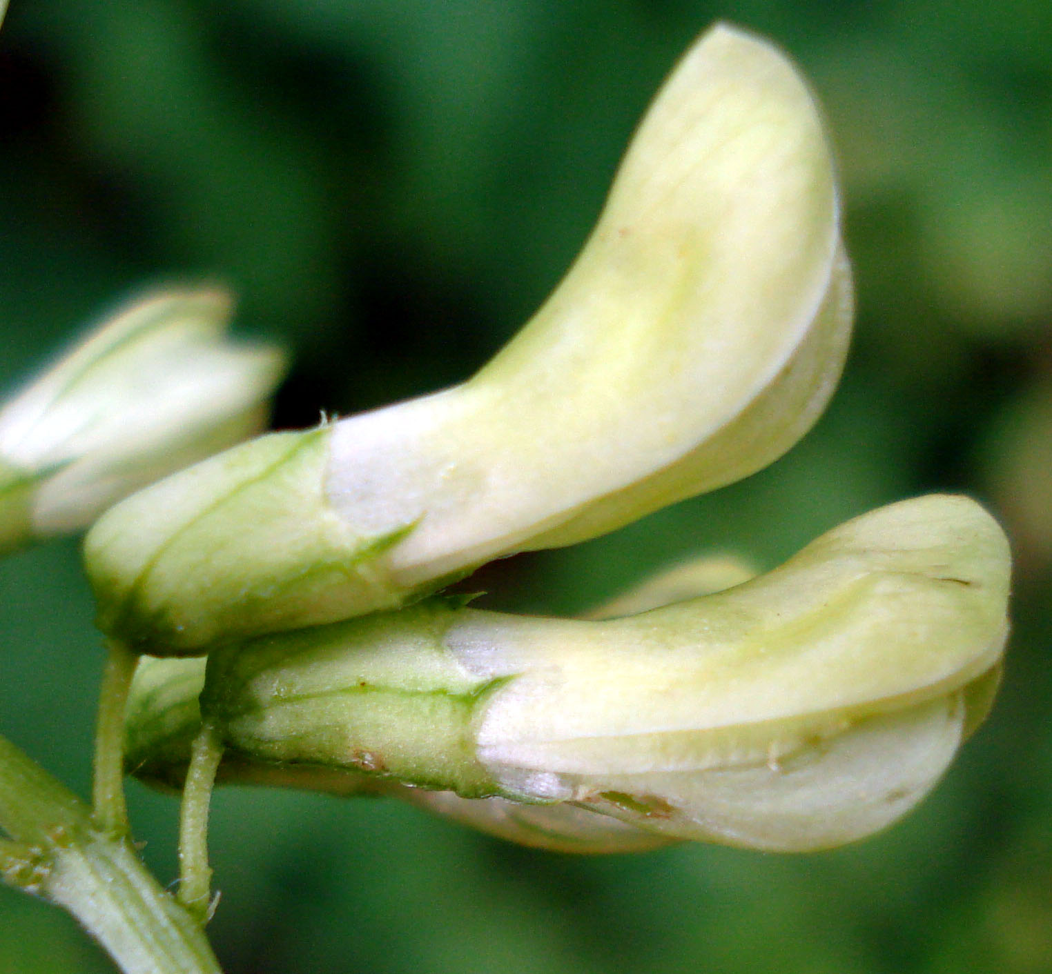 Vicia pisiformis (Unterfranken, Germany)